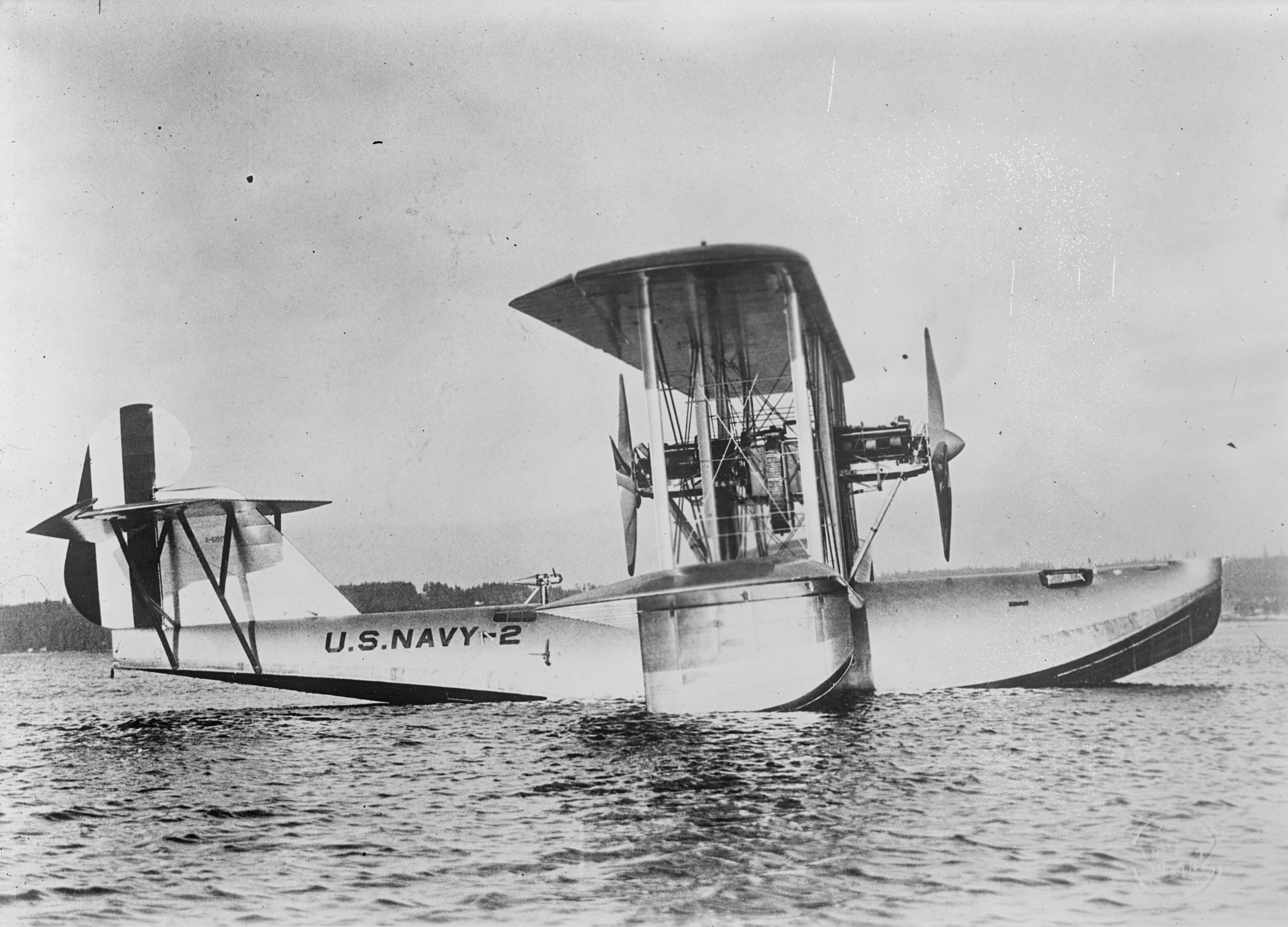 A U.S. Navy PB-1 (Boeing Model 50) patrol plane, in 1925. The PB designation was first used for the Boeing model 50 flying boat which was built in 1925 for a nonstop flight to Hawaii. The US Navy had designated the aircraft PB-1 and given it serial A6881. The designation PB was the used again for the US Navy version of the B-17 Flying Fortress. On 31 July 1945 the US Navy ordered a single B-17F from the USAAF production line with the designation PB-1 and the BuNo 34106. Former B-17Gs were converted for the US Coast Guard as PB-1Gs and for the USN as PB-1Ws.